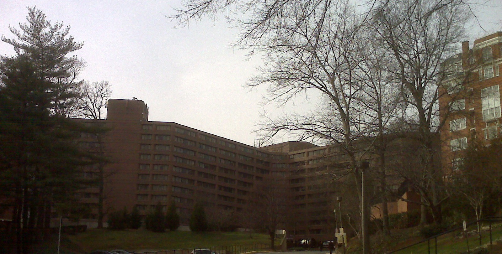 Main building of the Marriott Wardman Park, built in 1977.